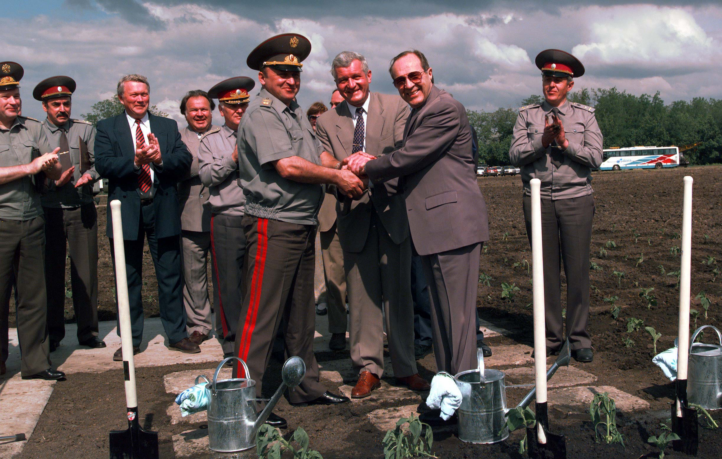 U.S. Secretary of Defense William J. Perry (right) Ukraine Minister of Defense Valeriy Shmarov (center) and Russian Federation Minister of Defense General of the Army Pavel Grachev (left) celebrate the completed dismantlement of Silo 110 by planting sunflowers in the field where the missile silo used to be near Pervomaysk, Ukraine, June 4, 1996. Silo 110 was one of 160 Ukrainian missile silos being dismantled under the Nunn-Lugar/Cooperative Threat Reduction Program. All 160 should be dismantled within the next two years